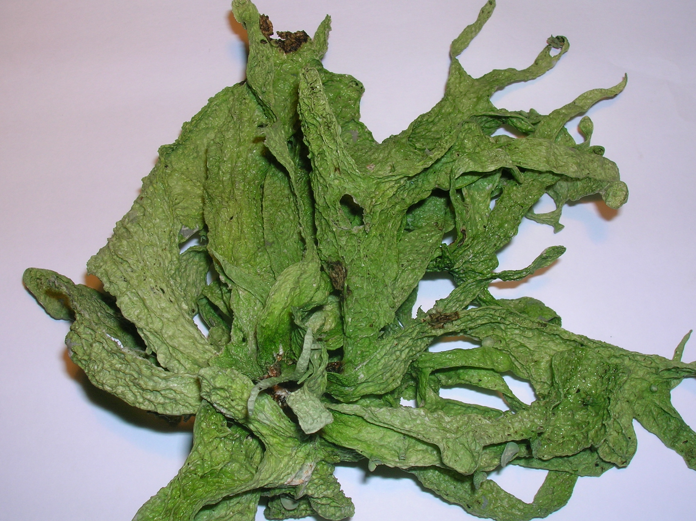 Ramalina fraxinae thallus from a Sycamore (Acer pseudoplatanus)